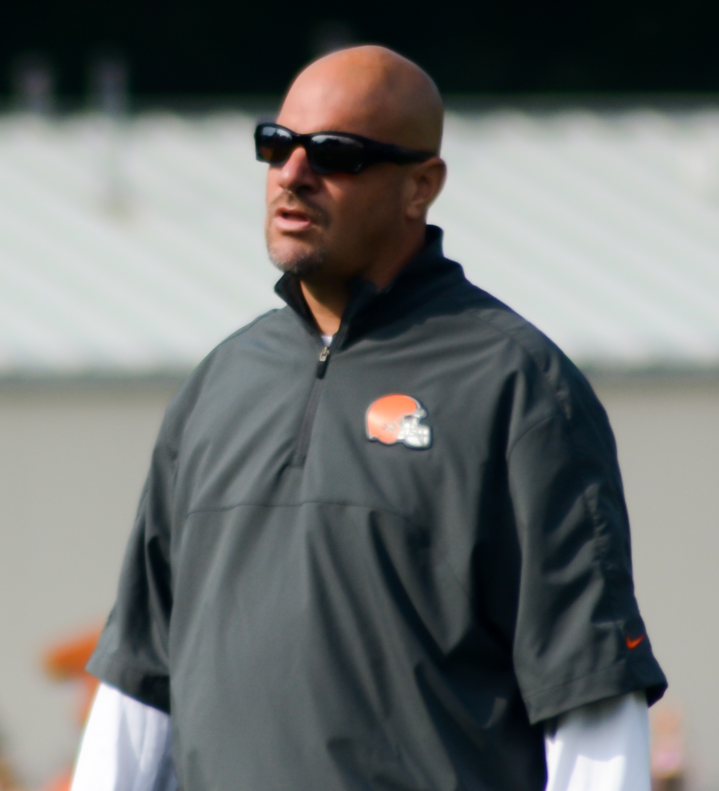 Mike Pettine at 2014 Browns training camp.